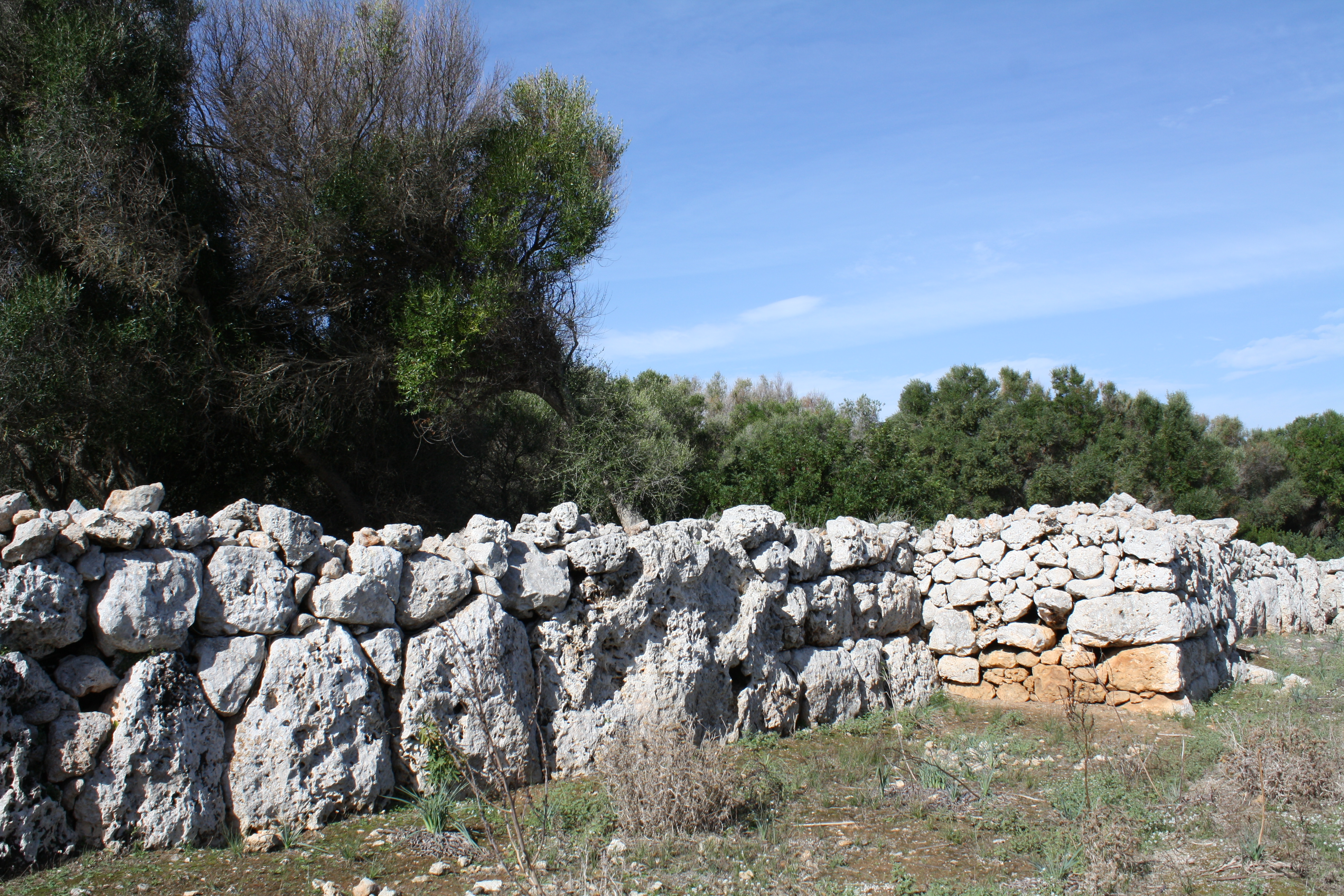 Wall and bastion of prehistoric village of Son Catlar, Minorca.